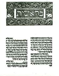 This is the first page of the "Soncino Bible" printed in Soncino, Italy, during the year 1483.